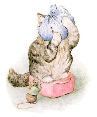 Miss Moppet with the Mouse, illustration from The Story of Miss Moppet